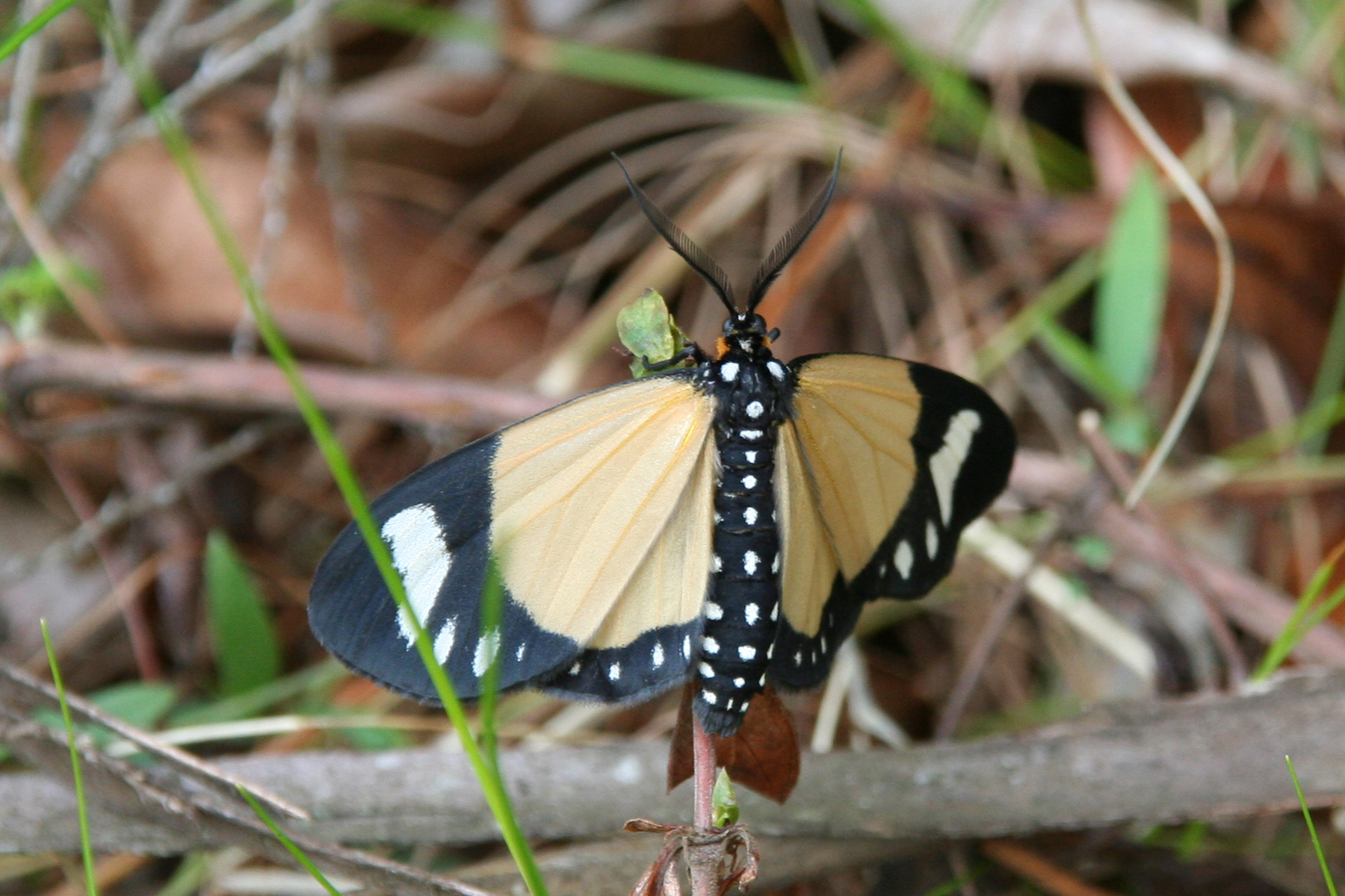 Cartaletis libyssa ethelinda (Kirby,1896) an geometrid butterfly from East-Africa (known from Tansania and Kenia]